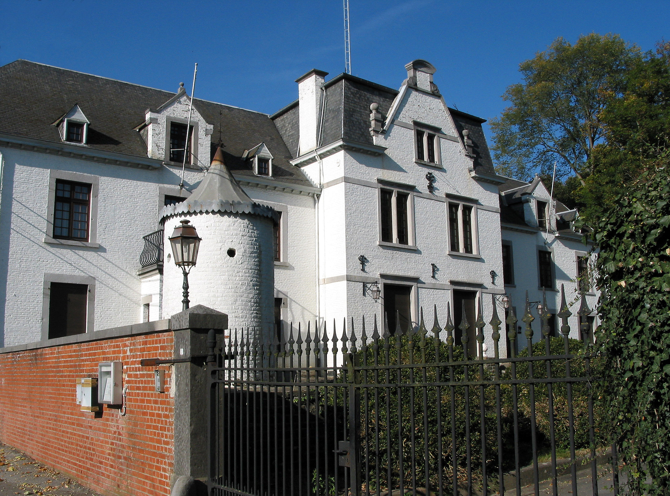 Braives (Belgium), the previous gendarmerie station.